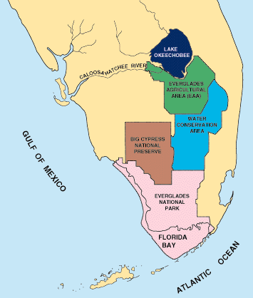 Map of south Florida showing distribution of federal lands, Water Conservation Areas, and Everglades Agricultural Area.